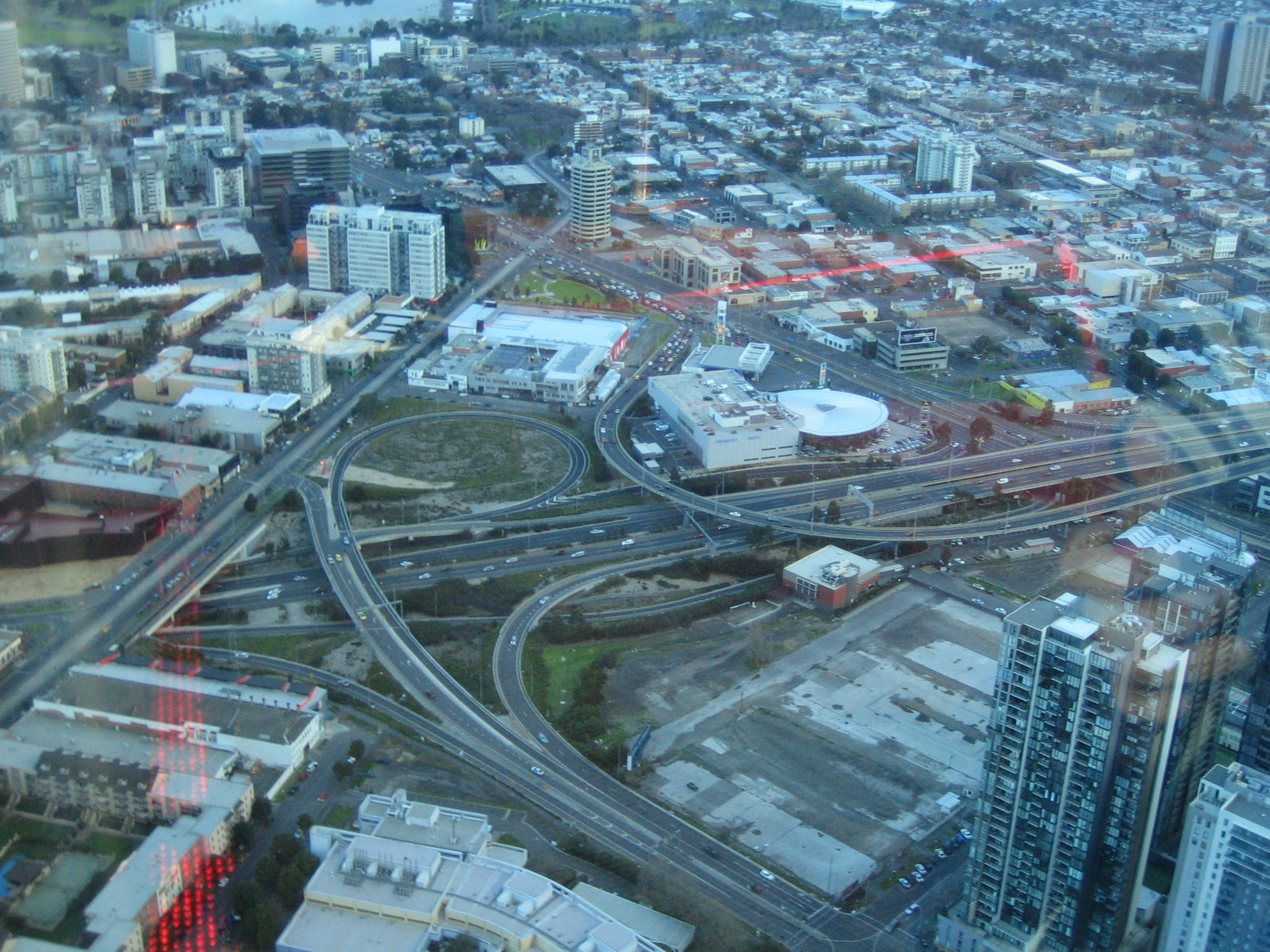 Shot from Eureka Tower